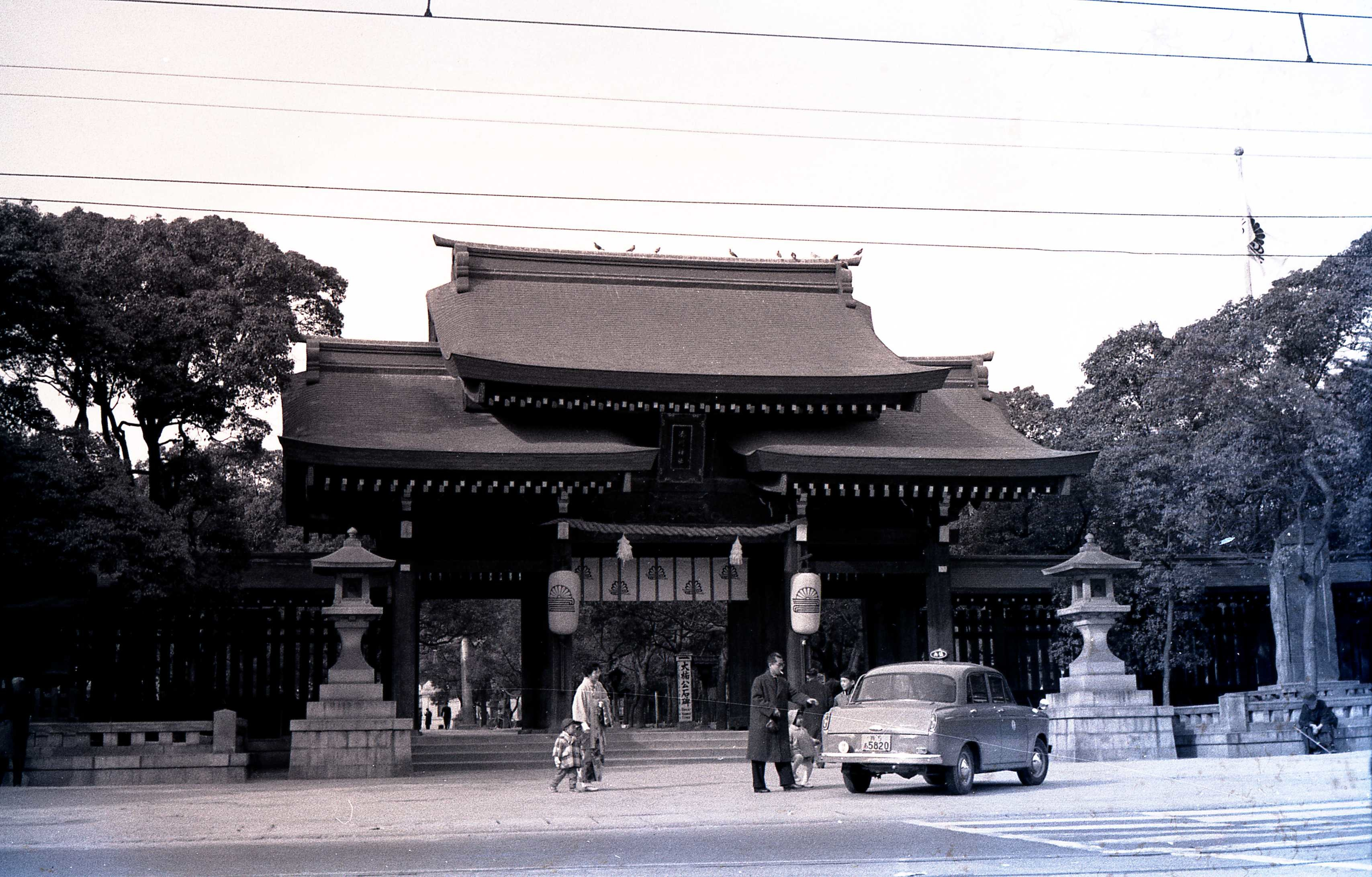 昭和36年当時の湊川神社 Minatogawa-Shine of Kobe, Japan in 1961